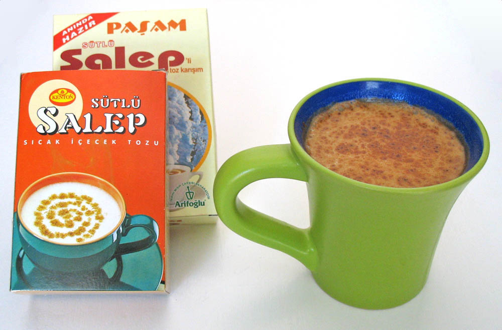 Salep drink